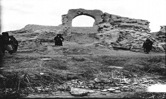 Old Palace in Karbala